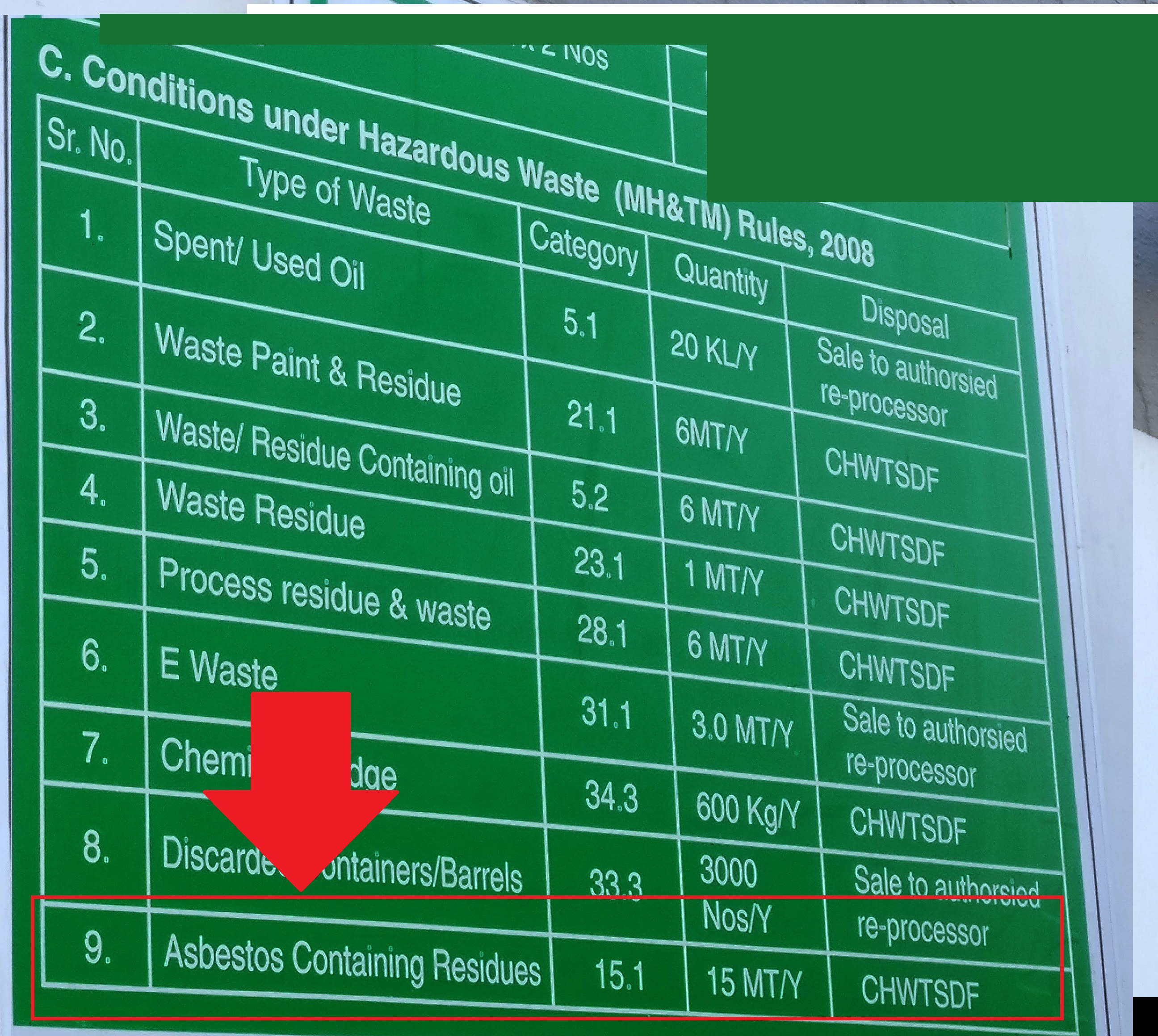 The Centre for Pollution Control Board (CPCB) has a guideline that all Asbestos Scrap like Broken Cement Sheets, Cement Pipes, Gaskets, Ropes, Packings, Cloth, Insulation, Millboards etc be highlighted as Hazardous and disposed under Hazardous Waste with permits provided. Photo taken in Pune, India.